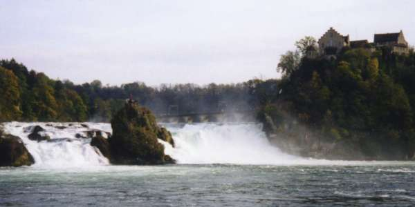 Rhine falls near Schaffhausen